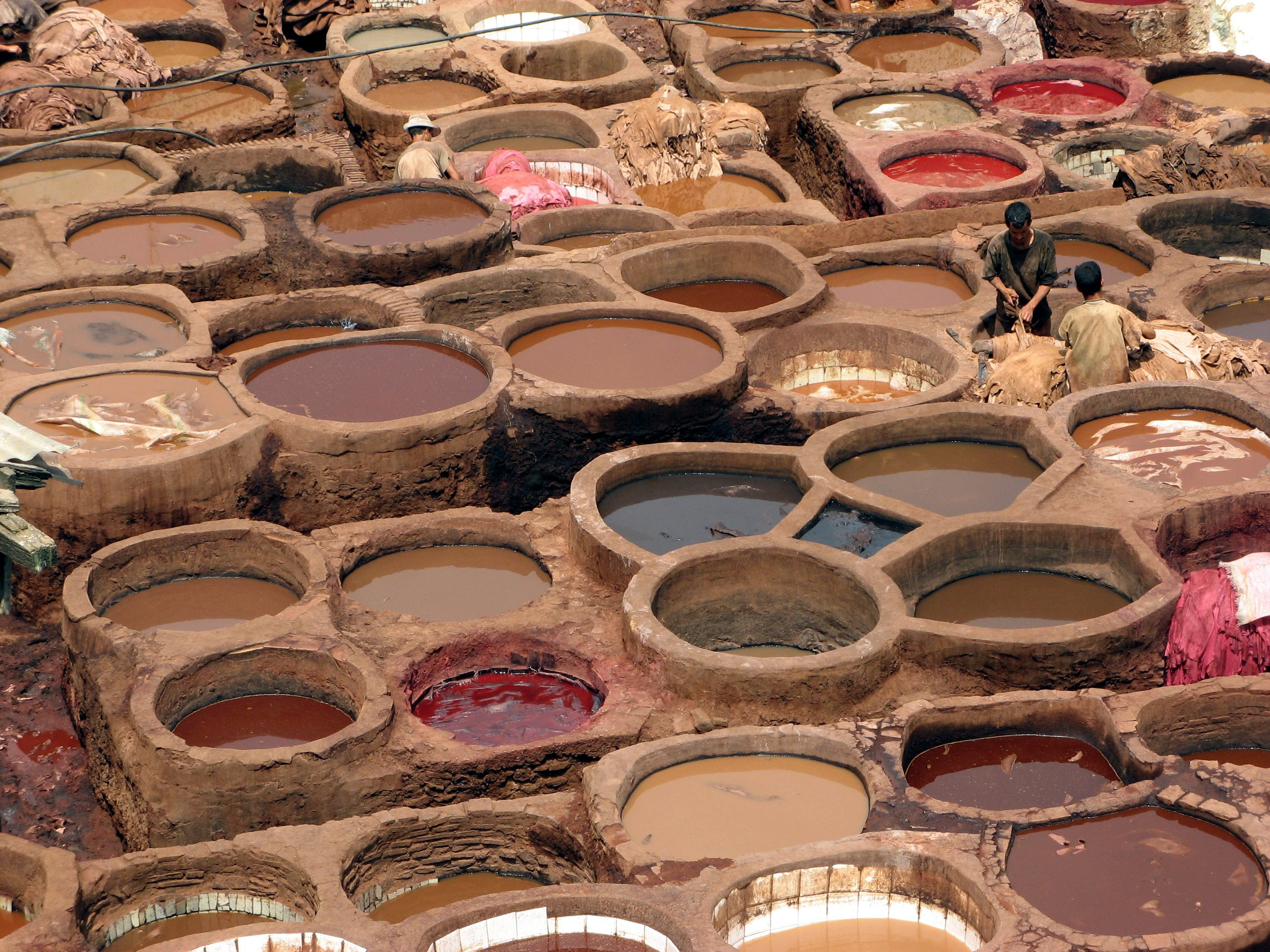 Image of leather dyeing vats in Fes.